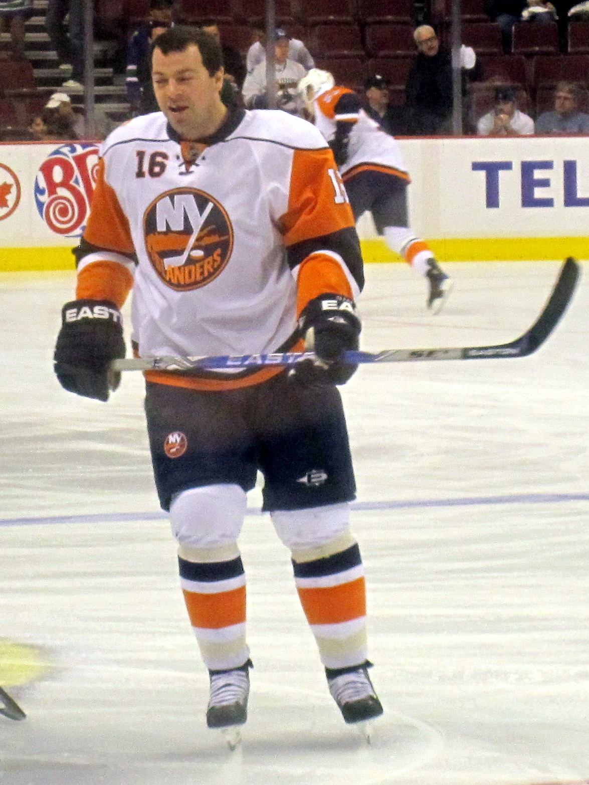 New York Islanders forward Jon Sim during a game against the Vancouver Canucks on March 16, 2010, in Vancouver.